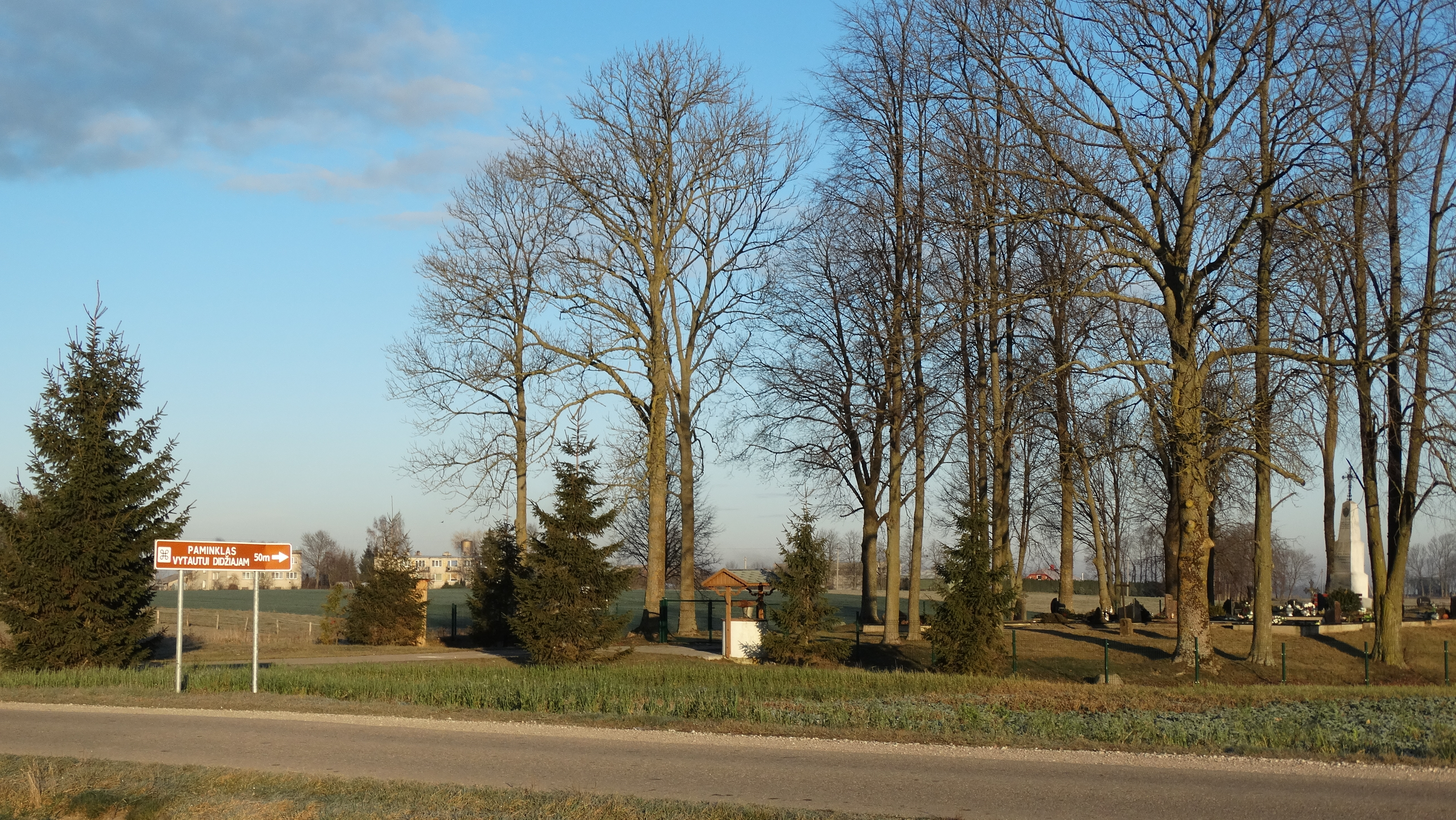 Meškučiai, Marijampolė Municipality, Lithuania